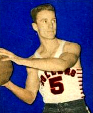 Professional basketball player Kenny Sailors